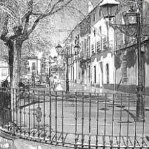 cdcdcwdcefvrtvr